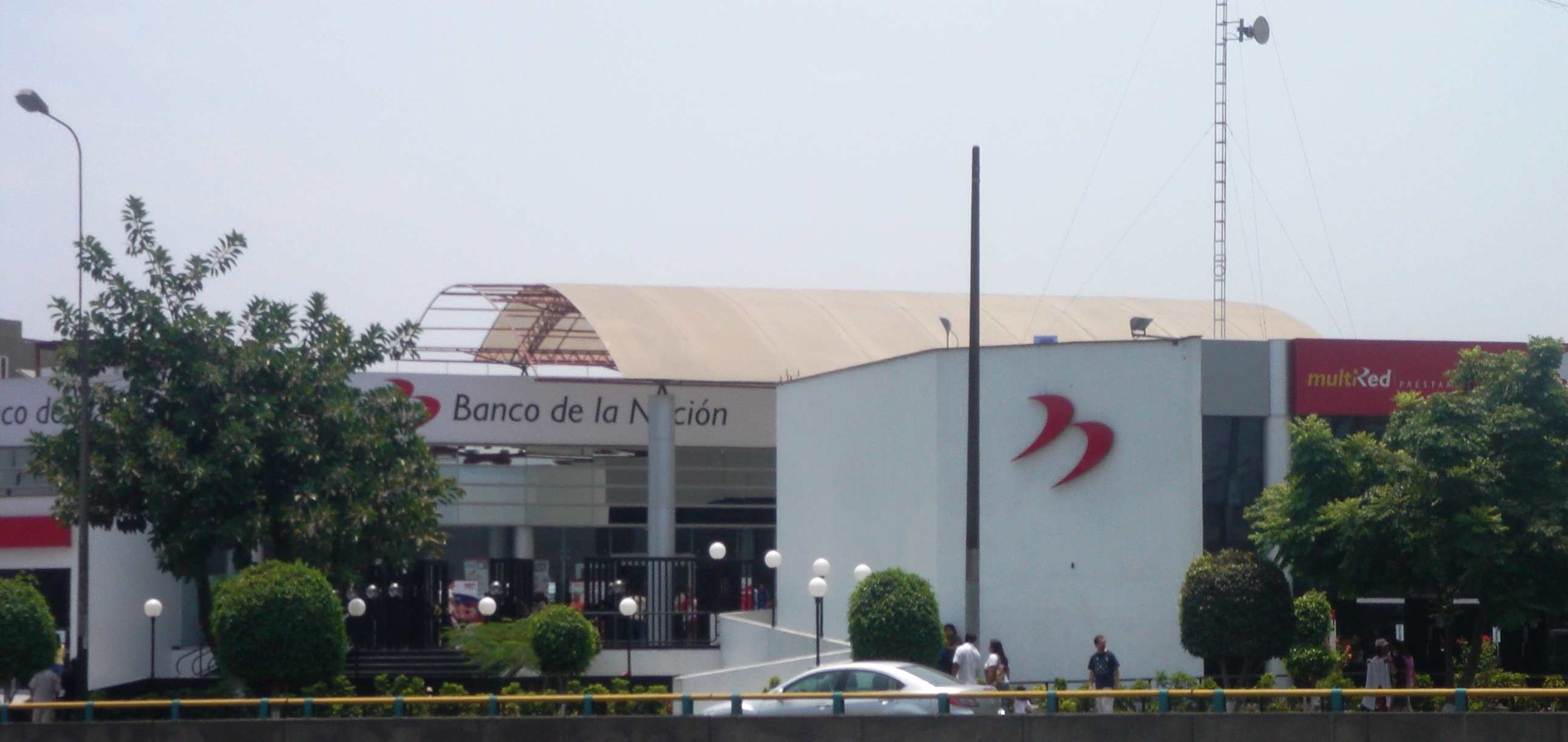 Peruvian National Bank office in San Borja District (Lima, Peru)